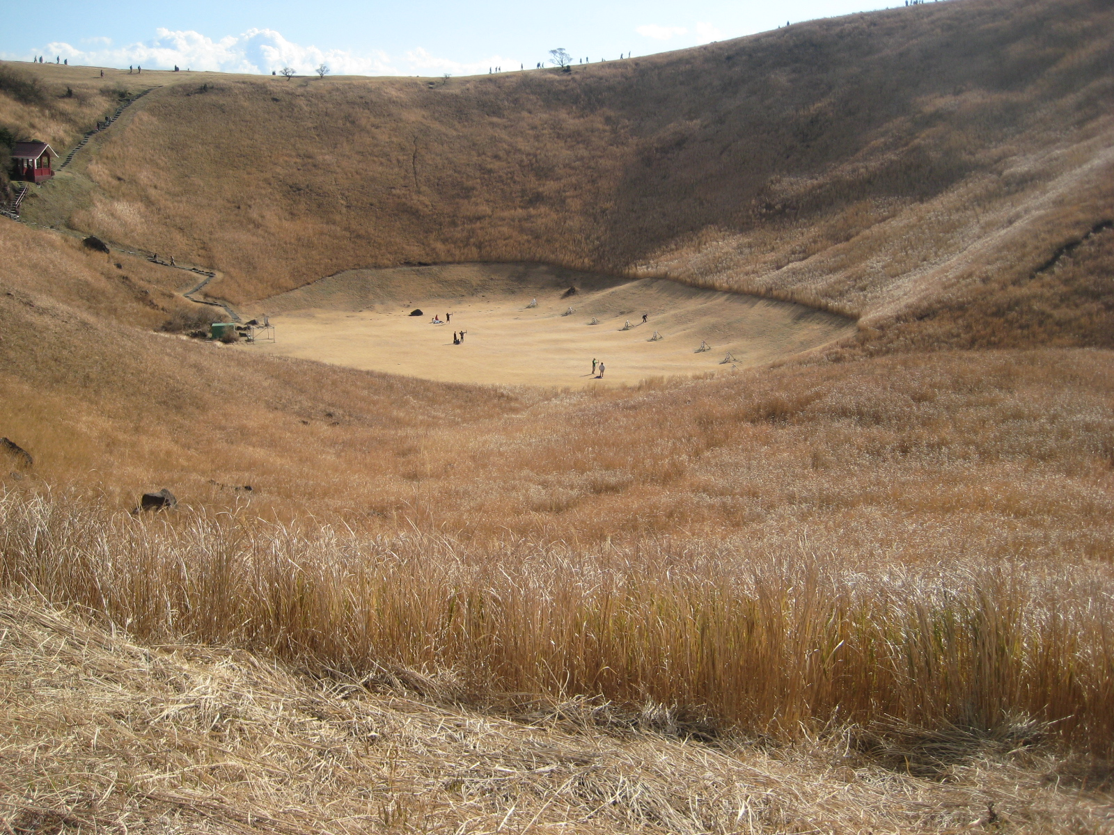 大室山の火口。Crater of Mount Omuro.